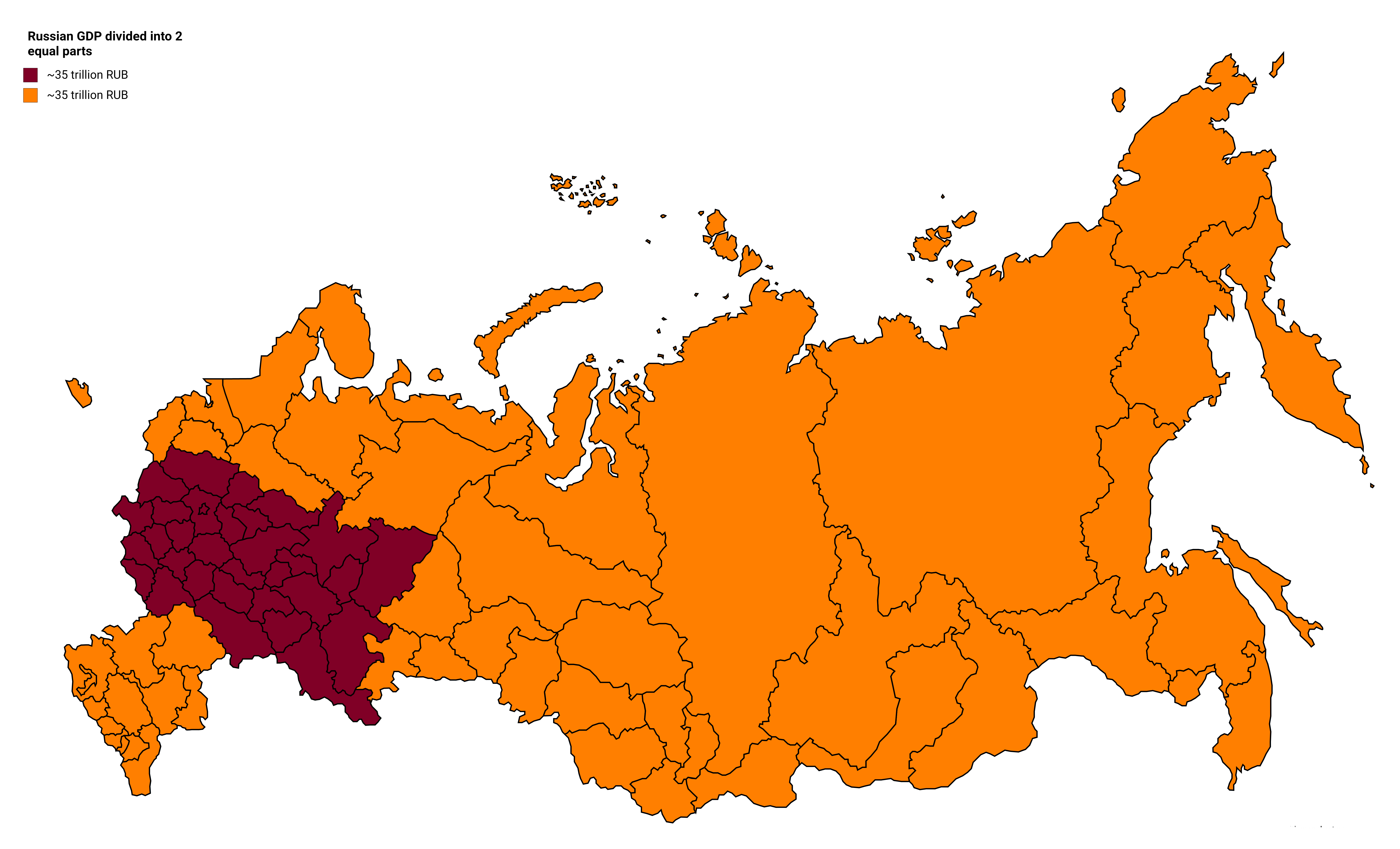 Russian GDP divided into 2 equal parts. 50% of Russian economy is concentrated in only 10% of Russian area or only 2 federeal districts